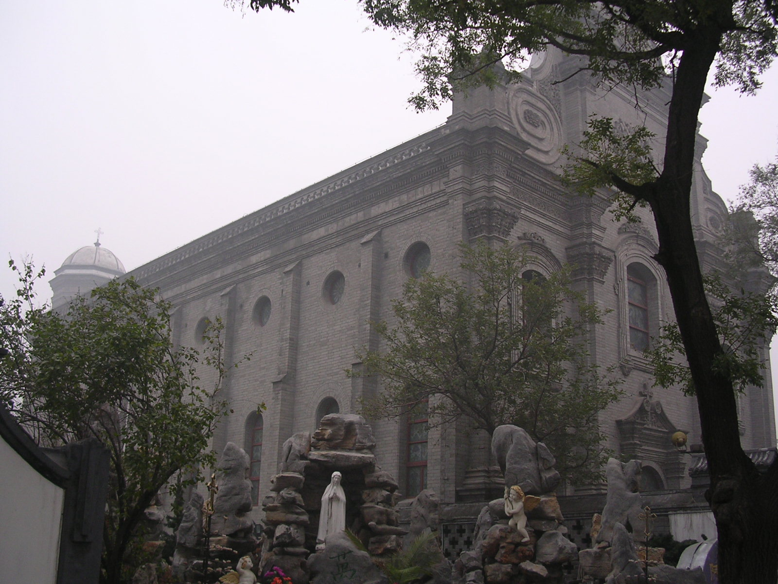 Catholic Cathedral of the Immaculate Conception (also called Nantang) from the North-West Courtyard